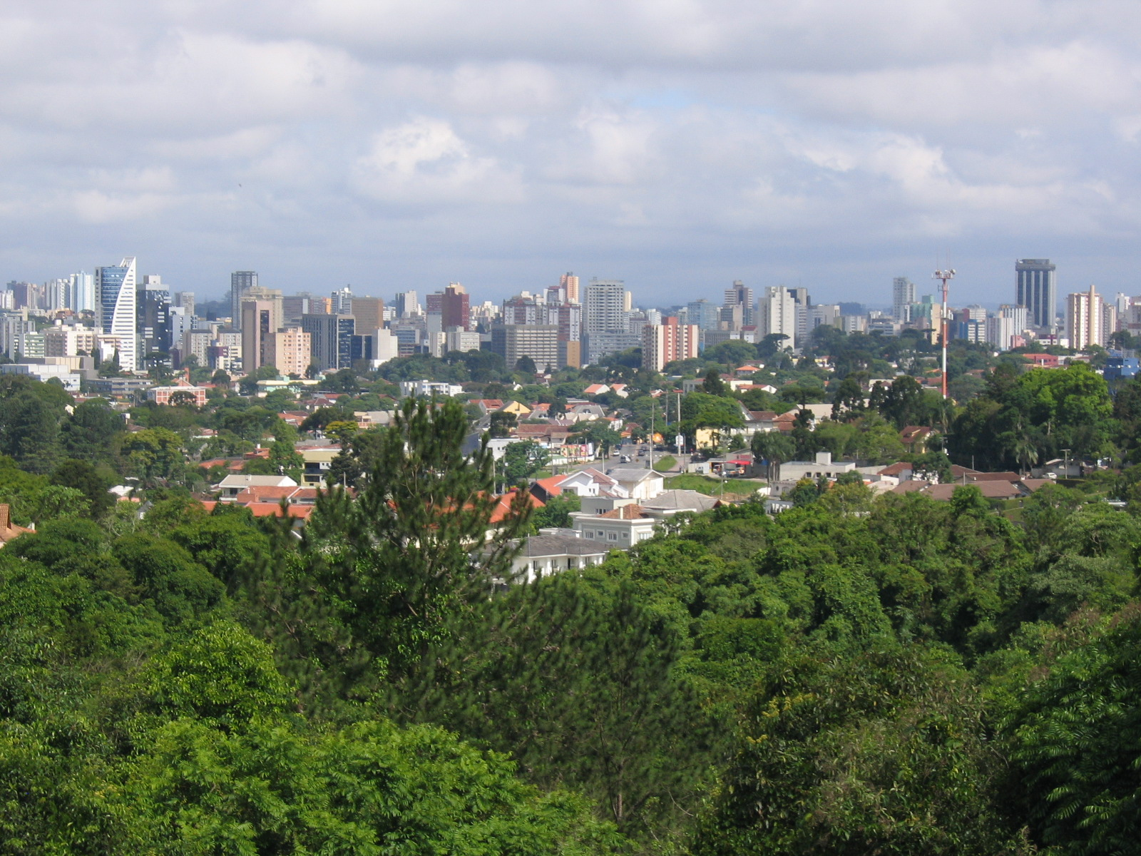 Skyline of Curitiba.